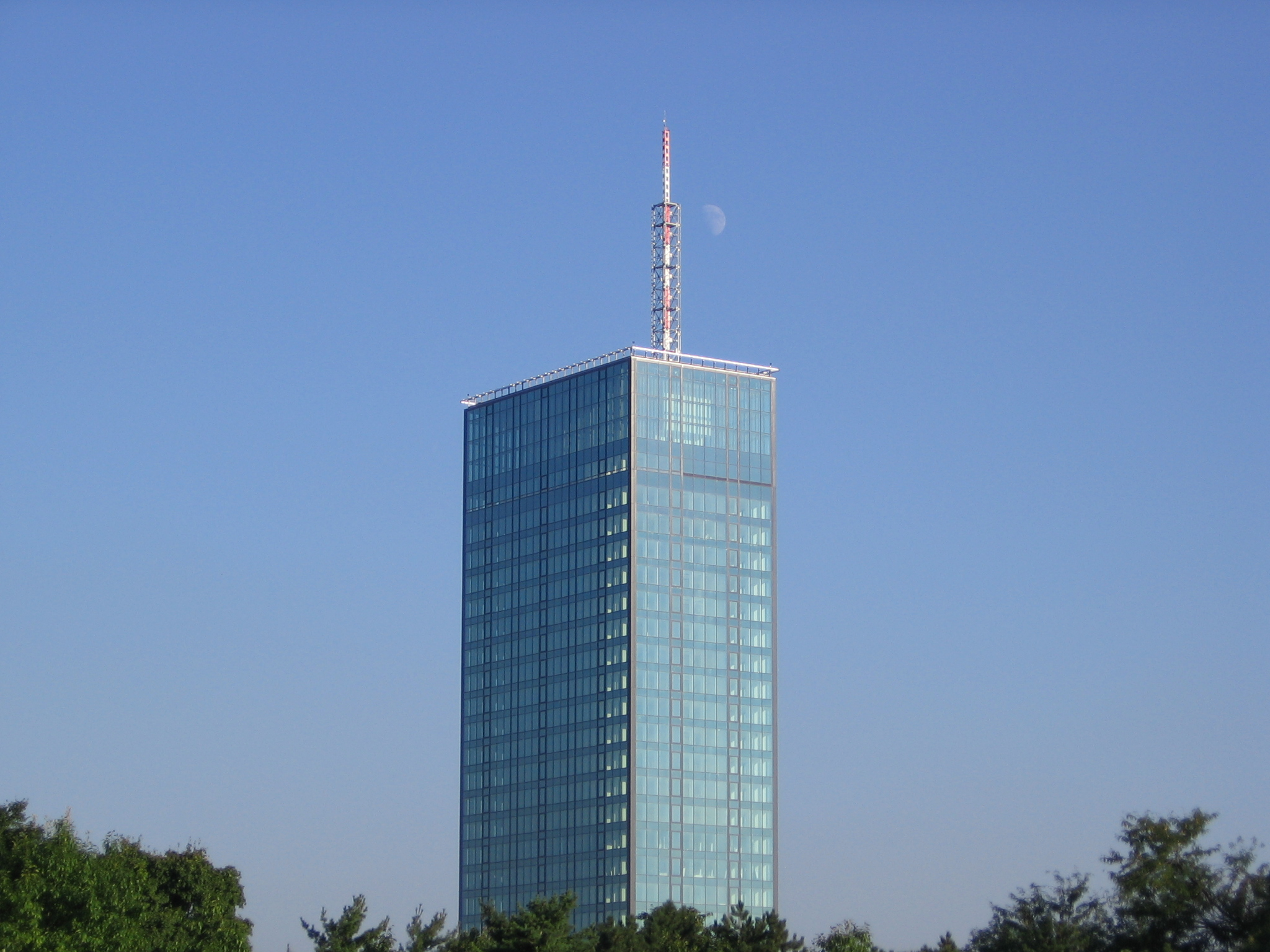 Ušće Tower reconstructed